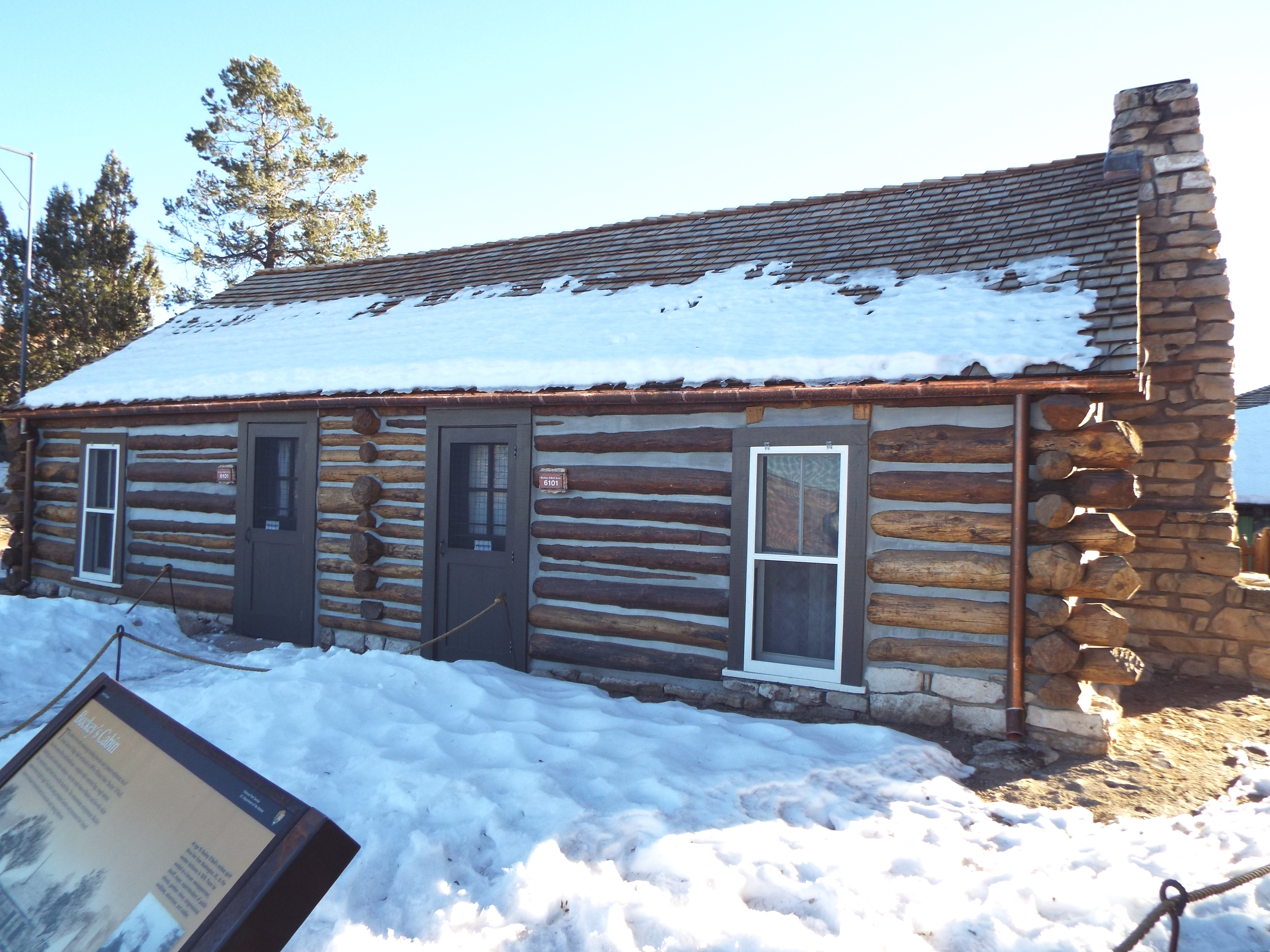 The Buck O’Neil Cabin - the cabin was built in 1890 by William “Buckey” O’Neil. Among the occupations which O’Neil had during his lifetime were that author, sheriff and judge in Arizona. He was a member of the Rough Riders and in Cuba he was killed in Action. The cabin is the oldest extant structure on the South Rim.